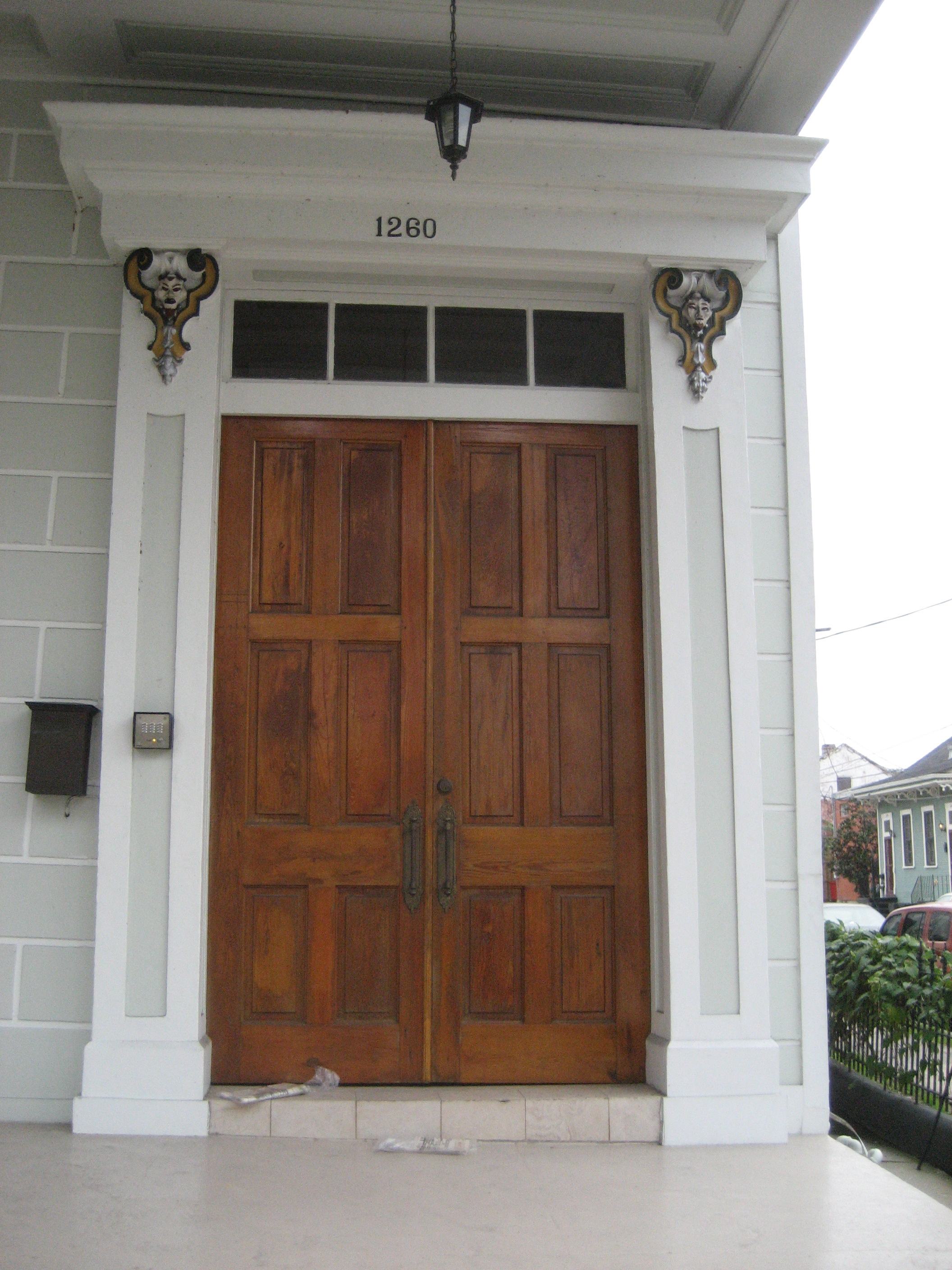 New Orleans: Doorway, 19th century house on Esplanade Avenue